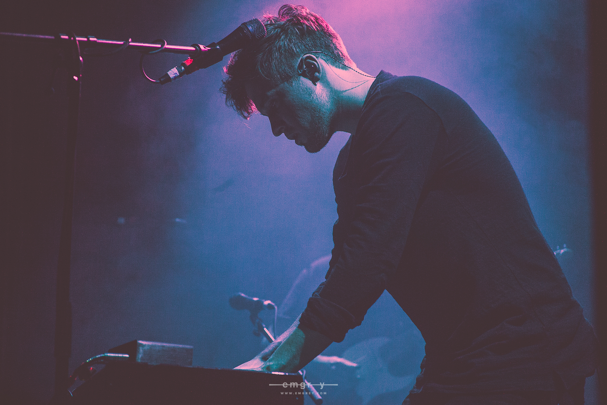 British duo Aquilo in NY, by: Em Grey